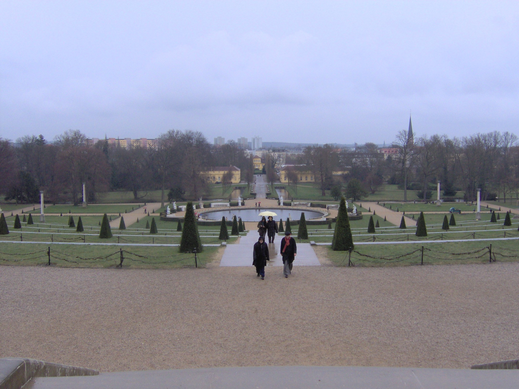 By Trebor27trebor in 2005 of the gardens of Sanssouci from on the steps leading up to the palace.